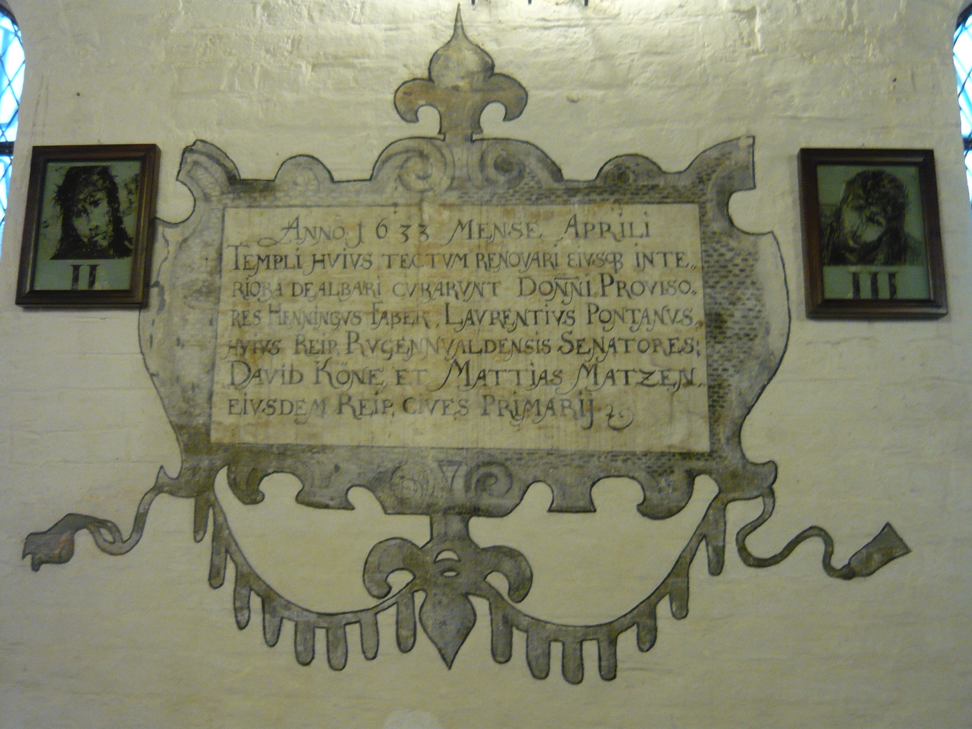 Painted on the wall memorial plaque, for Darłowo's St. George Church renovation in april 1633, with the names of sponsors.